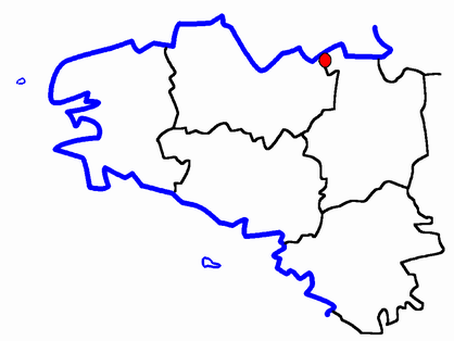 Description: Map for localisazion of cantons of Bretagne region in France Source: made by Hervé Tigier from another large map